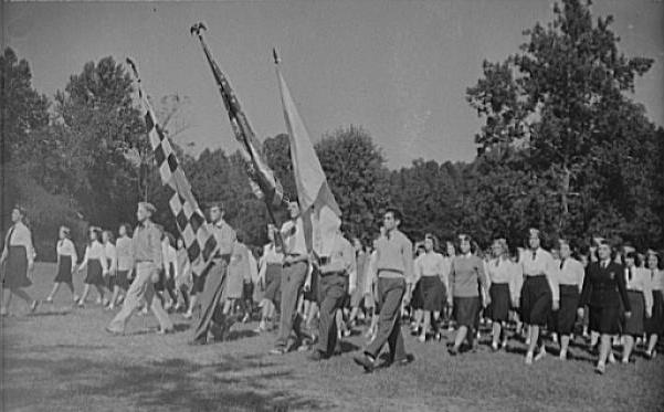 Montgomery Blair High school Victory Corps. Members of the Victory Corps exhibited their best formations before Army, Navy, and civilian officials in Silver Spring, Maryland. The girls being reviewed are students of Montgomery Blair High School.